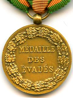 Escapee's Medal (France) (Reverse)